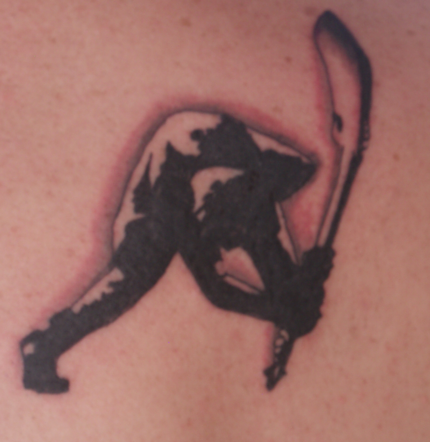 A tattoo version of the famous London Calling cover by The Clash.